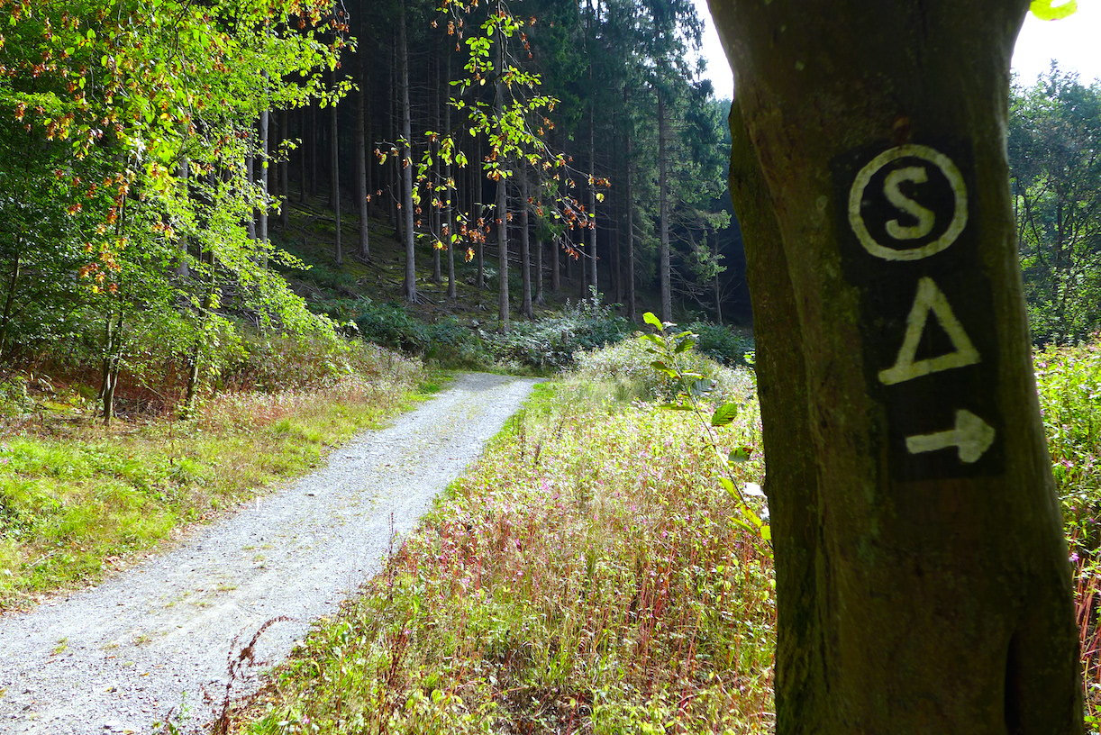 "Blade track" - the tourist marked route around the German city of Solingen (Northern Rhine-Westphalia). Third stage: Around the fortress of Schloss Burg and through the valley of a stream Esch. 8,1 km.